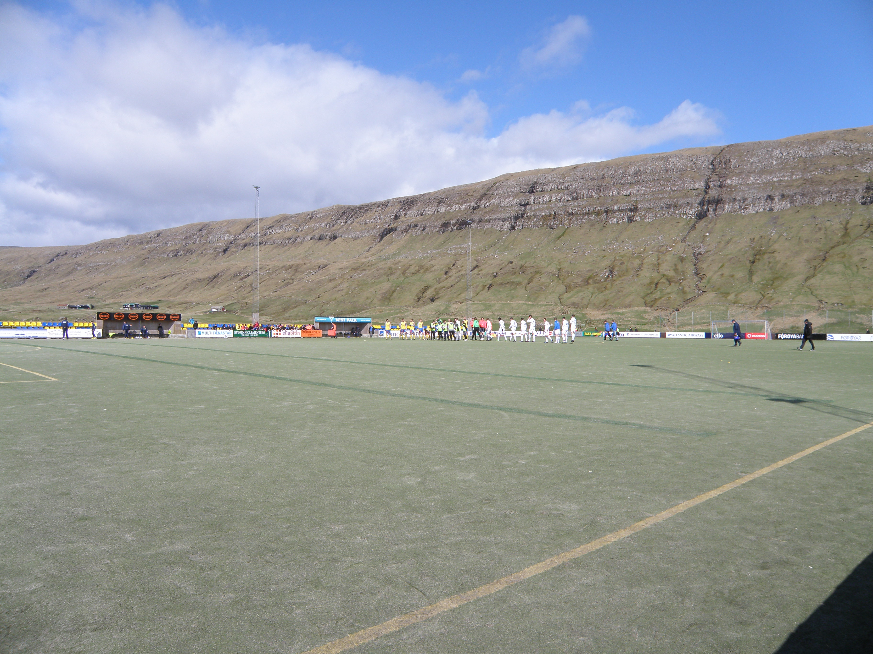 The football (soccer) stadium of B71 Sandoy is Inni í Dal, halfway between Sandur and Skopun on Sandoy island in the Faroe Islands. This photo was taken on 2 May 2010 just before the match between B71 Sandoy and FC Suðuroy in Vodafonedeildin (Premier League) started. There were no seats before 2010. Some of the yellow and blue seats are visible on this photo. B71 won this match 3-1. Føroyskt: B71 hevur heimavøll Inni í Dal, beint við Meginskúlan. Fótbóltsvøllurin var gjørdur í 1970. Sitipláss vóru gjørd í 2010.